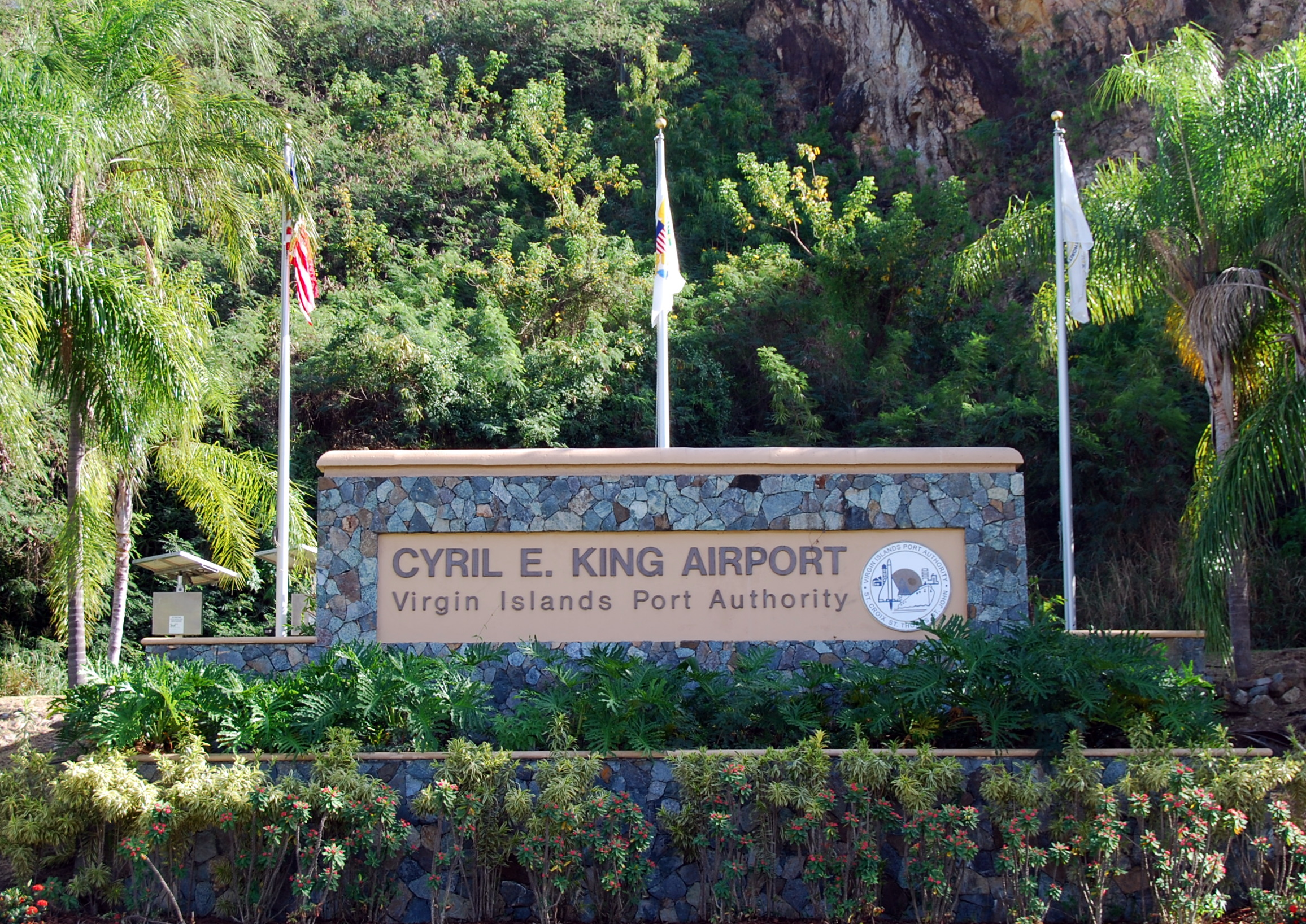 A sign with the Cyril E. King Airport name made ​​of stone, located at Airport Road, 1 east of the airport